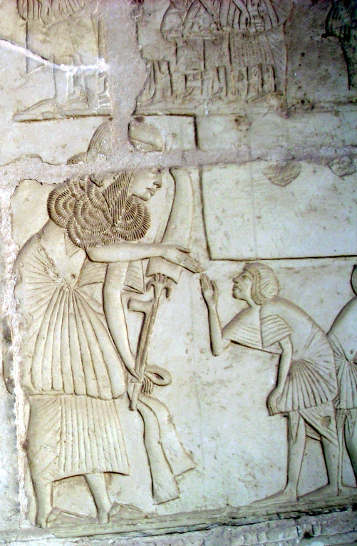 Relief of Horemheb's tomb - 18th dynasty of Egypt - Saqqara